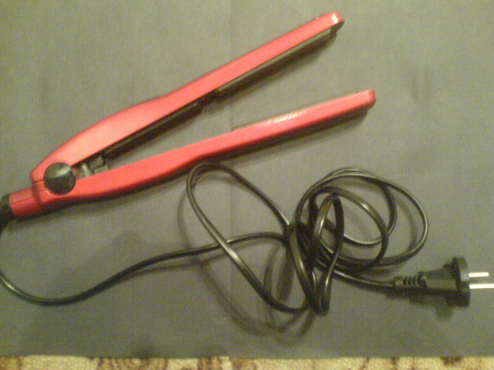 Hair iron